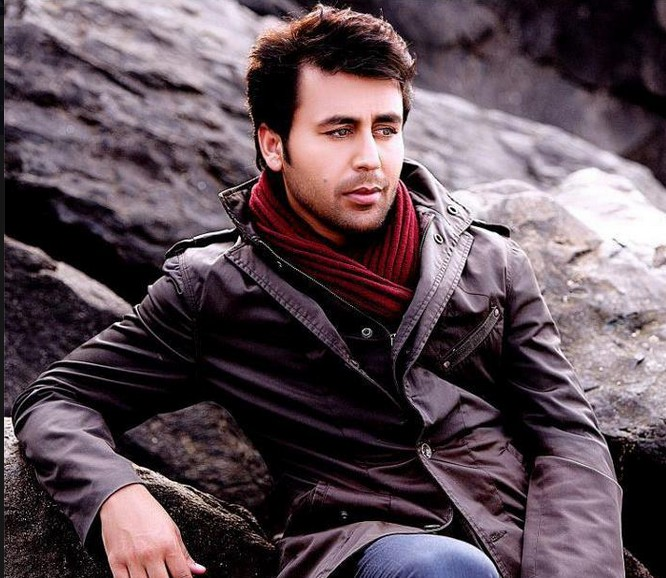 Shafiq Mureen in 2012